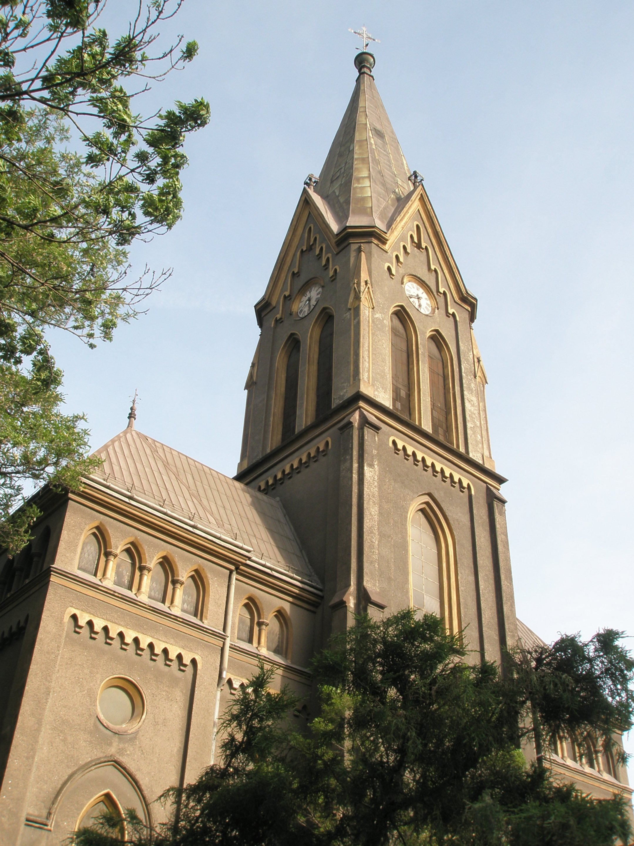 Lutheran church in Třinec, Frýdek-Místek District, Czech Republic